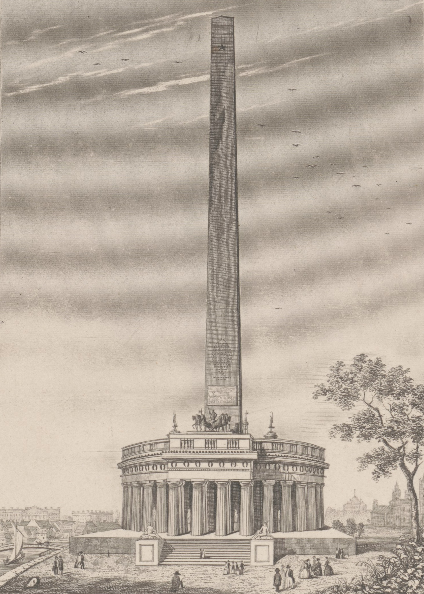 Title: Design of the National Washington Monument in the City of Washington / Robt. Mills, archt. ; Ch. Fenderich sc. Abstract/medium: 1 print : etching and letterpress ; sheet 18.9 x 12.1 cm, on mount 35.7 x 28 cm.